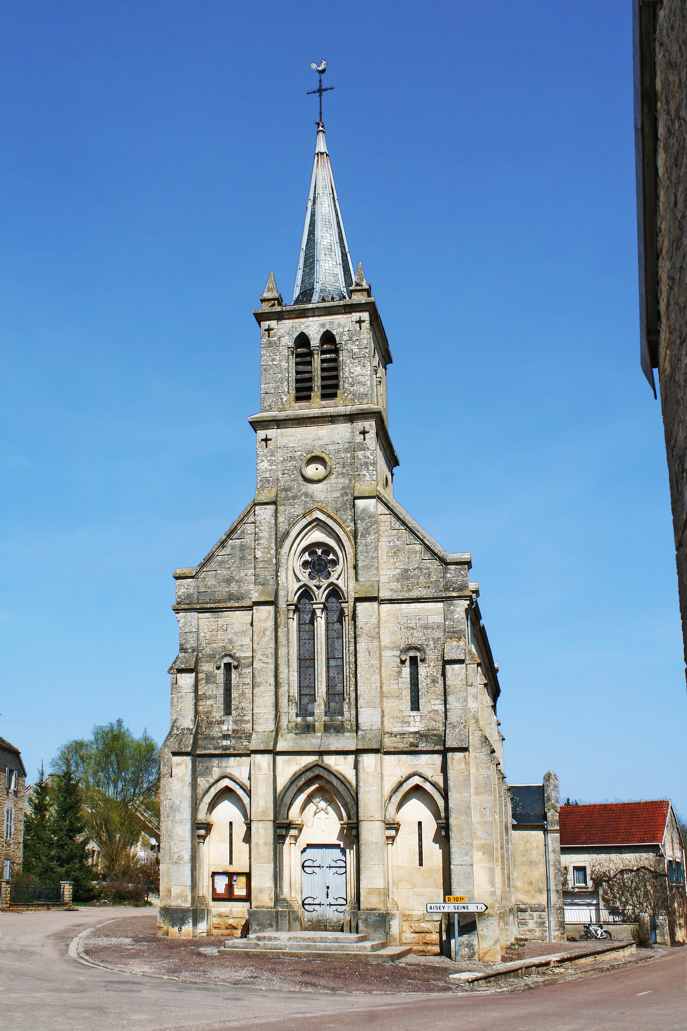 Church of Nativity in Chemin-d'Aisey